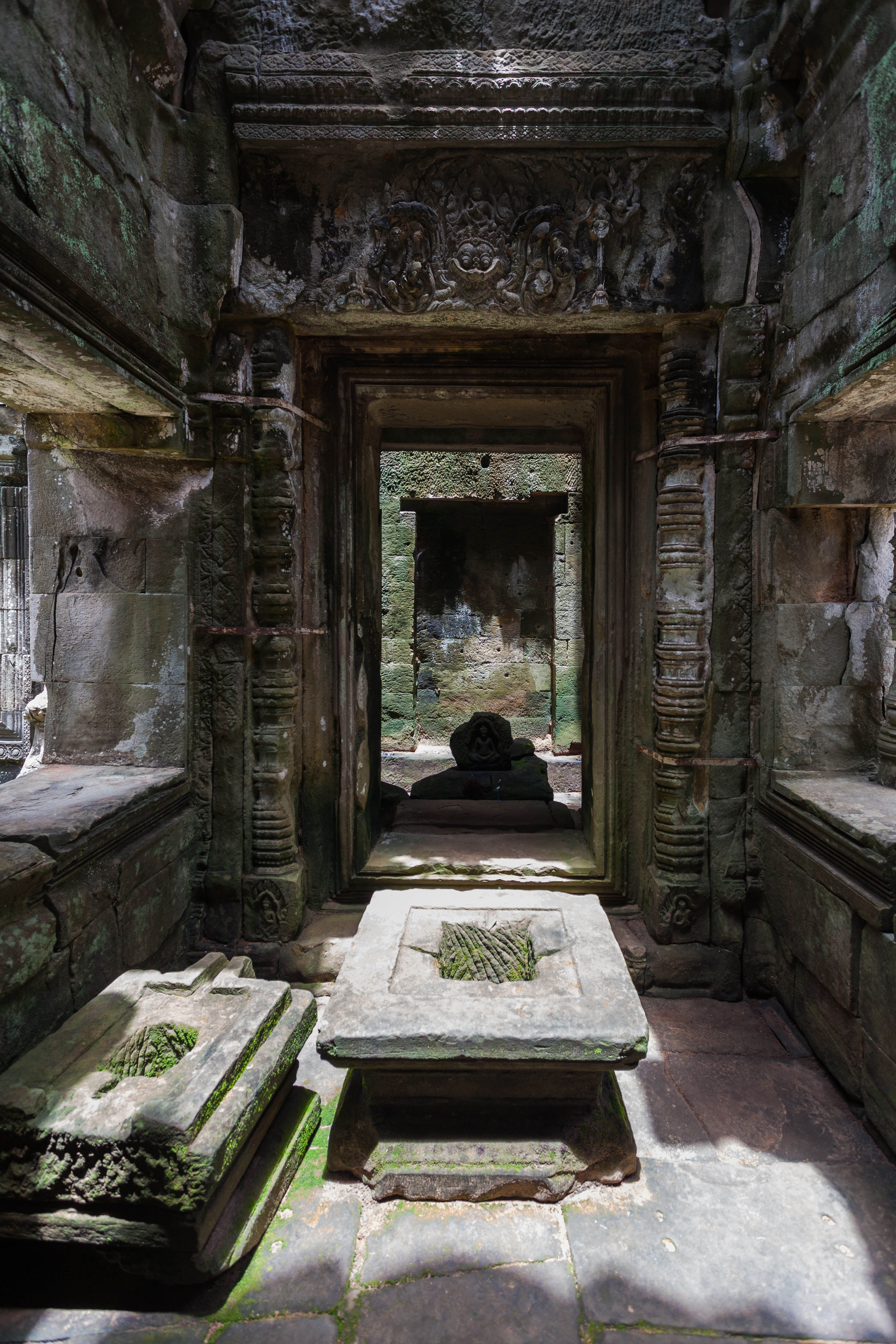 Chao Say Tevoda, Angkor, Cambodia